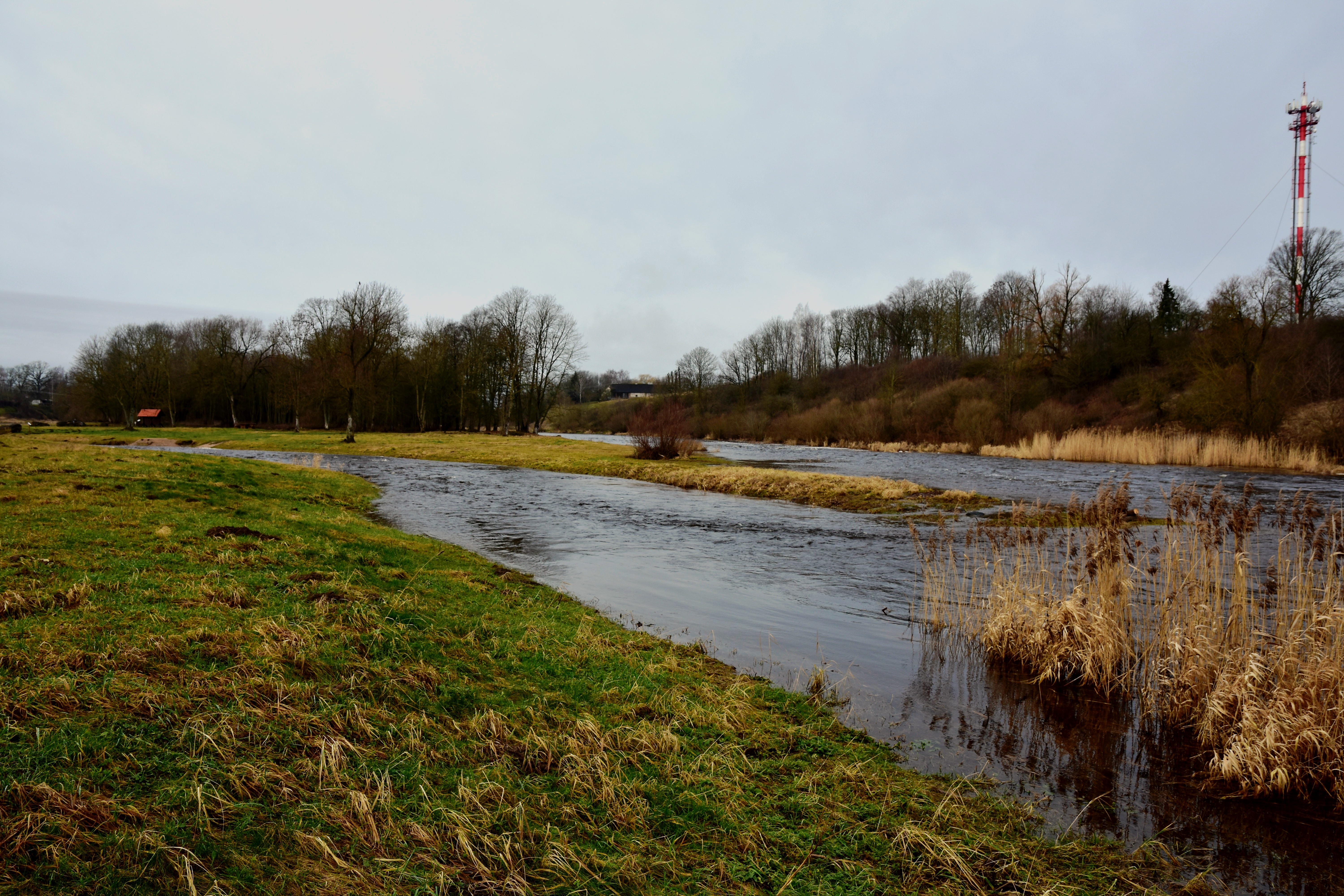 Ķirbaksala, an island in Bauska